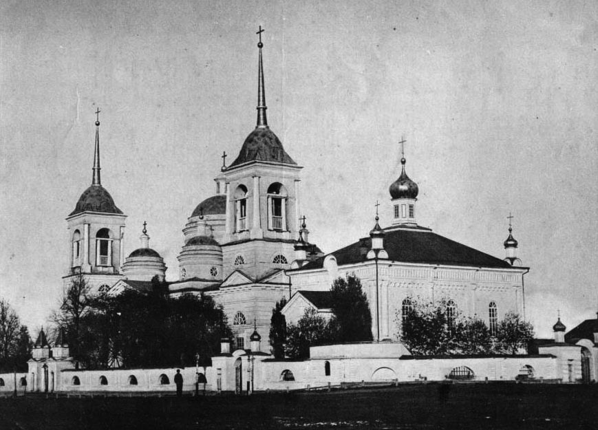 Mglin City Cathedral (about 1910)